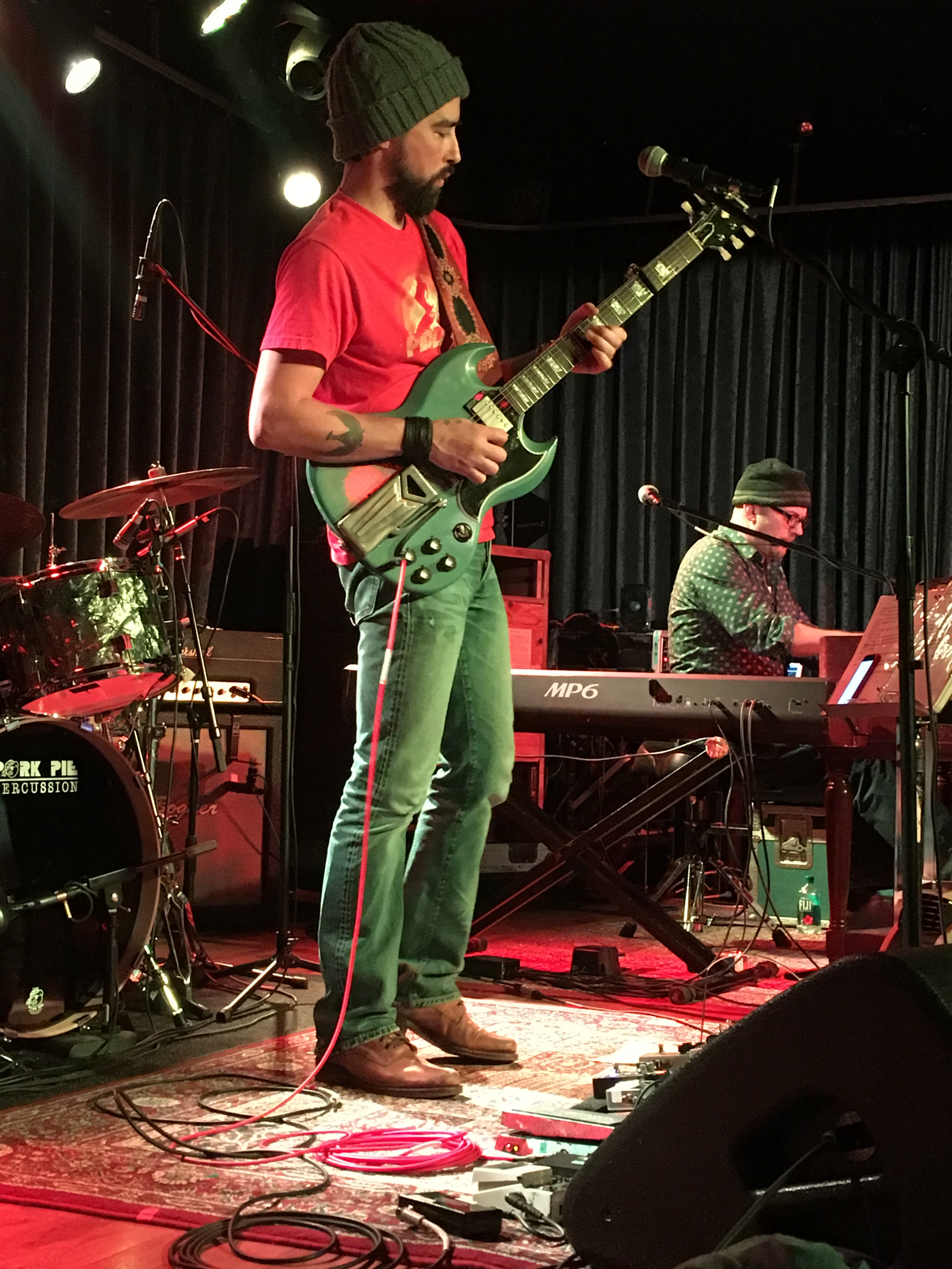 Jackie Greene 2016-02-23, The Hall at MP, Brooklyn NY